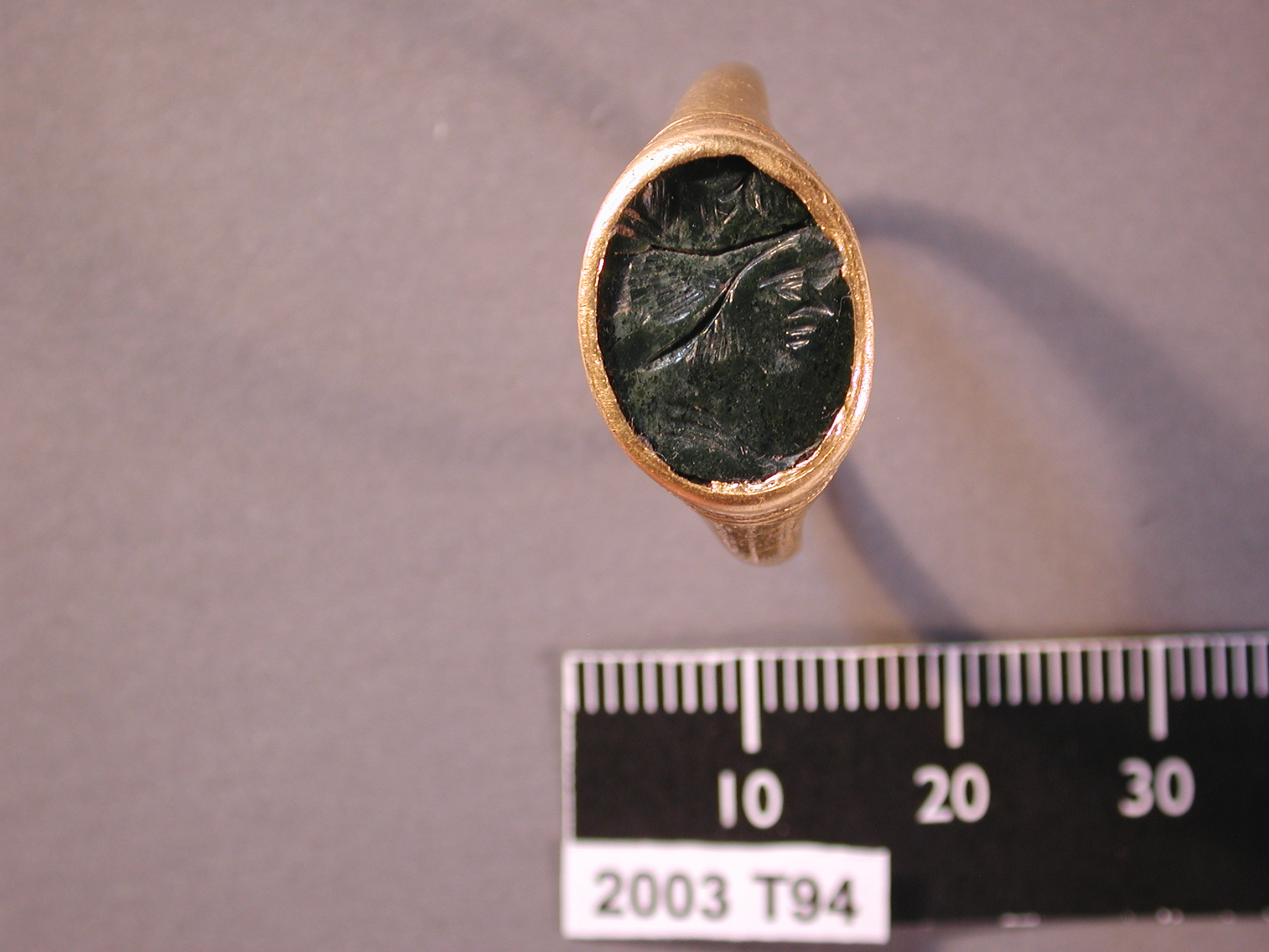 fig 262 bezel This was added from the site called under the name portableantiquities. See source for details.